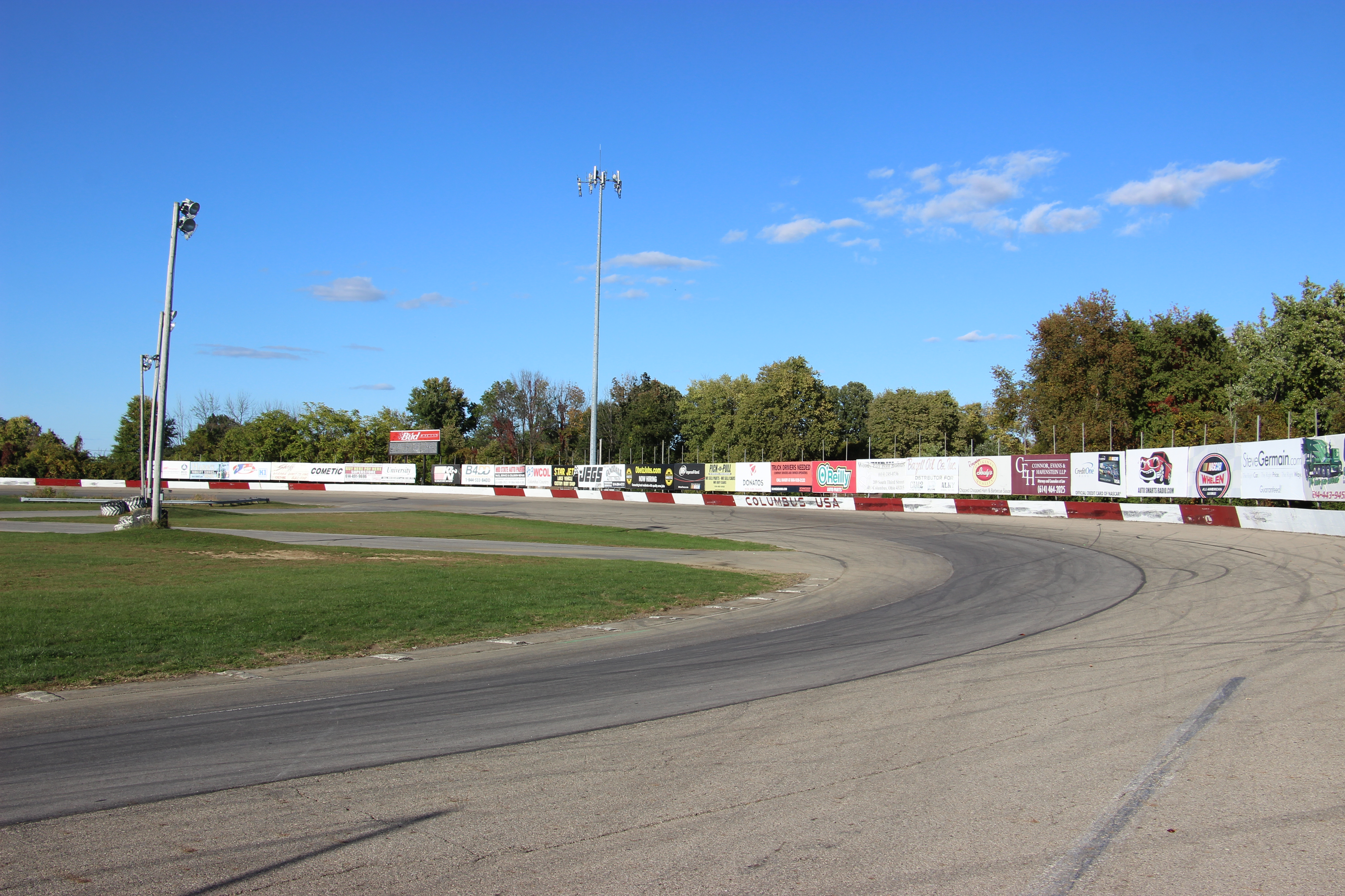 A view of the Columbus Motor Speedway track, shortly after closing.